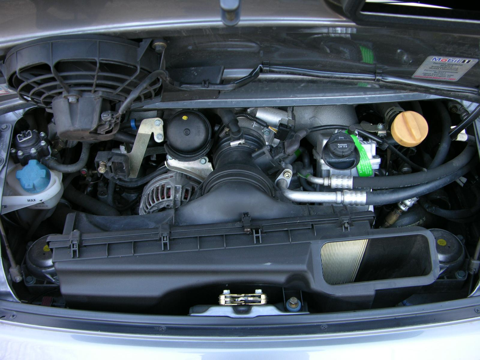 Engine bay of a 2005 Porsche 996 GT3.2005 Porsche 911 GT3